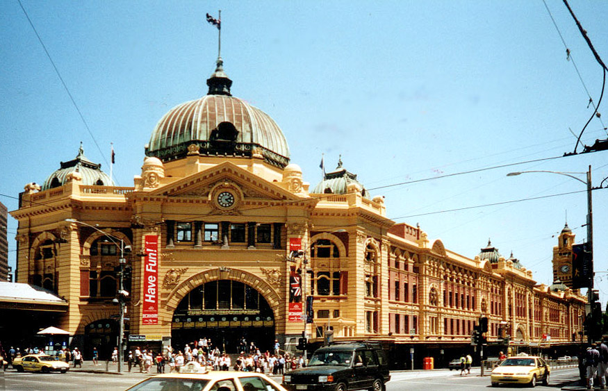 Flinders Street Station viewed from the far corner of Flinders St. and Swanston St.